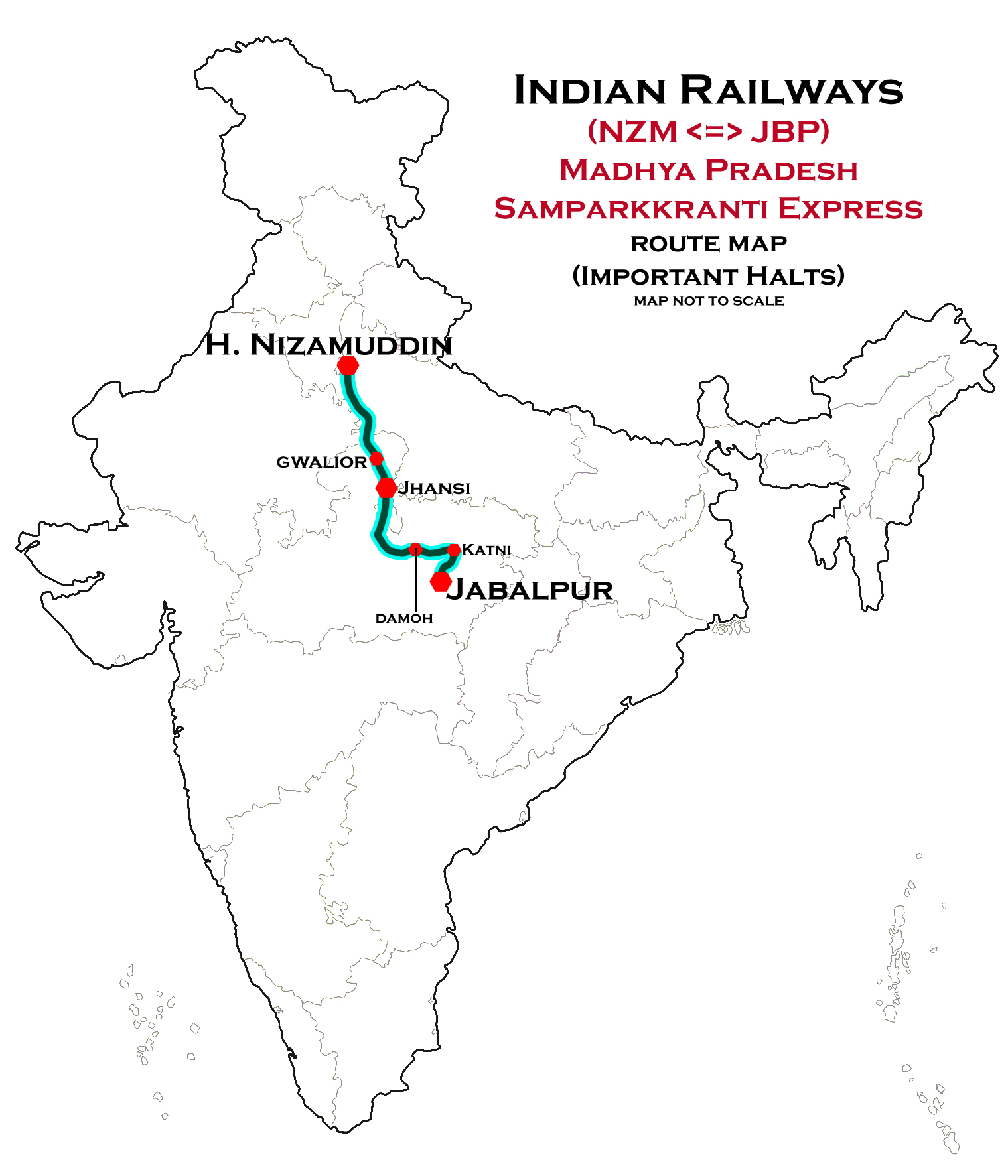 Madhya Pradesh Samparkkranti Express (NZM - JBP) Route map